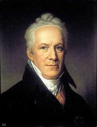 Portrait of Karl August von Hardenberg (1750-1822)